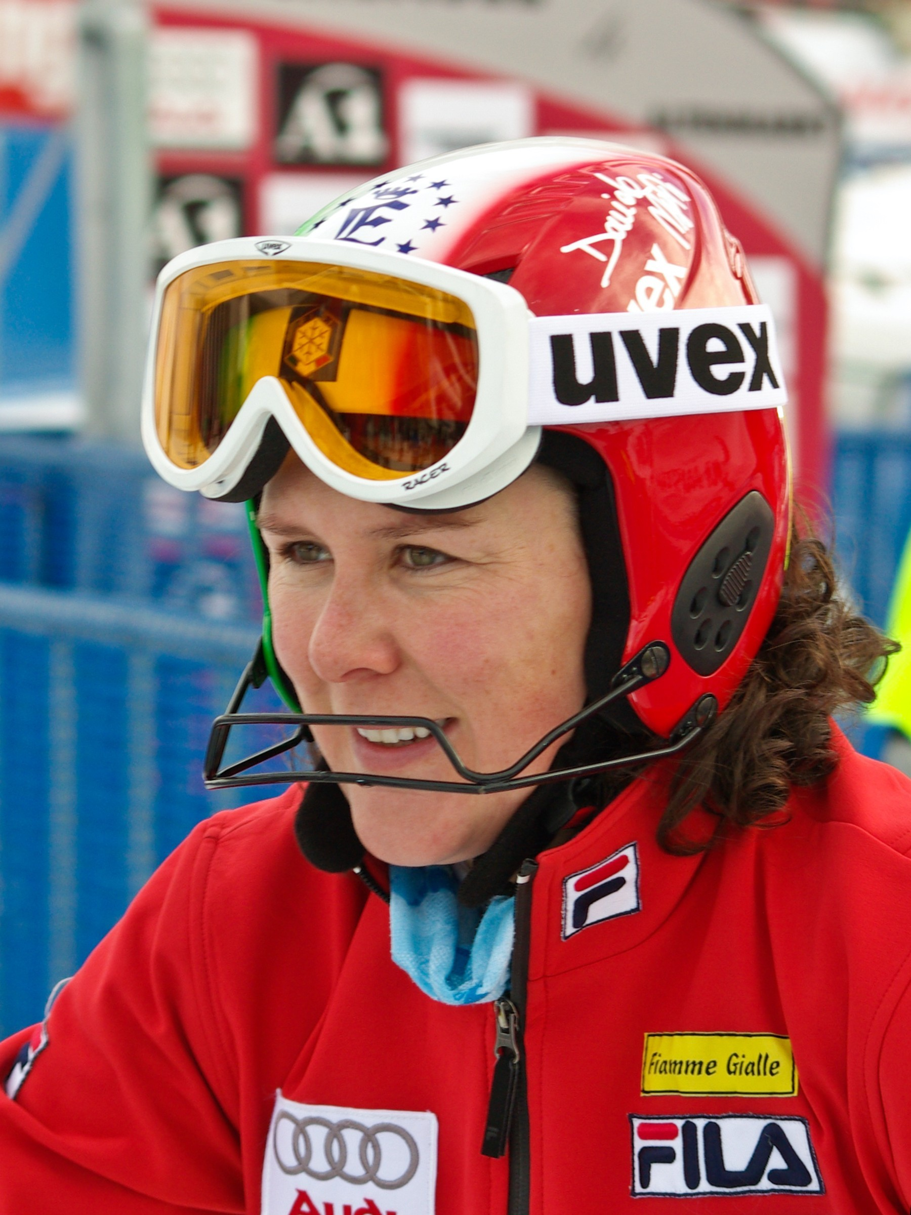 Italian alpine skier Daniela Merighetti after the inspection of the slalom run of the super combined in Altenmarkt-Zauchensee (Austria) on 17 January 2009.